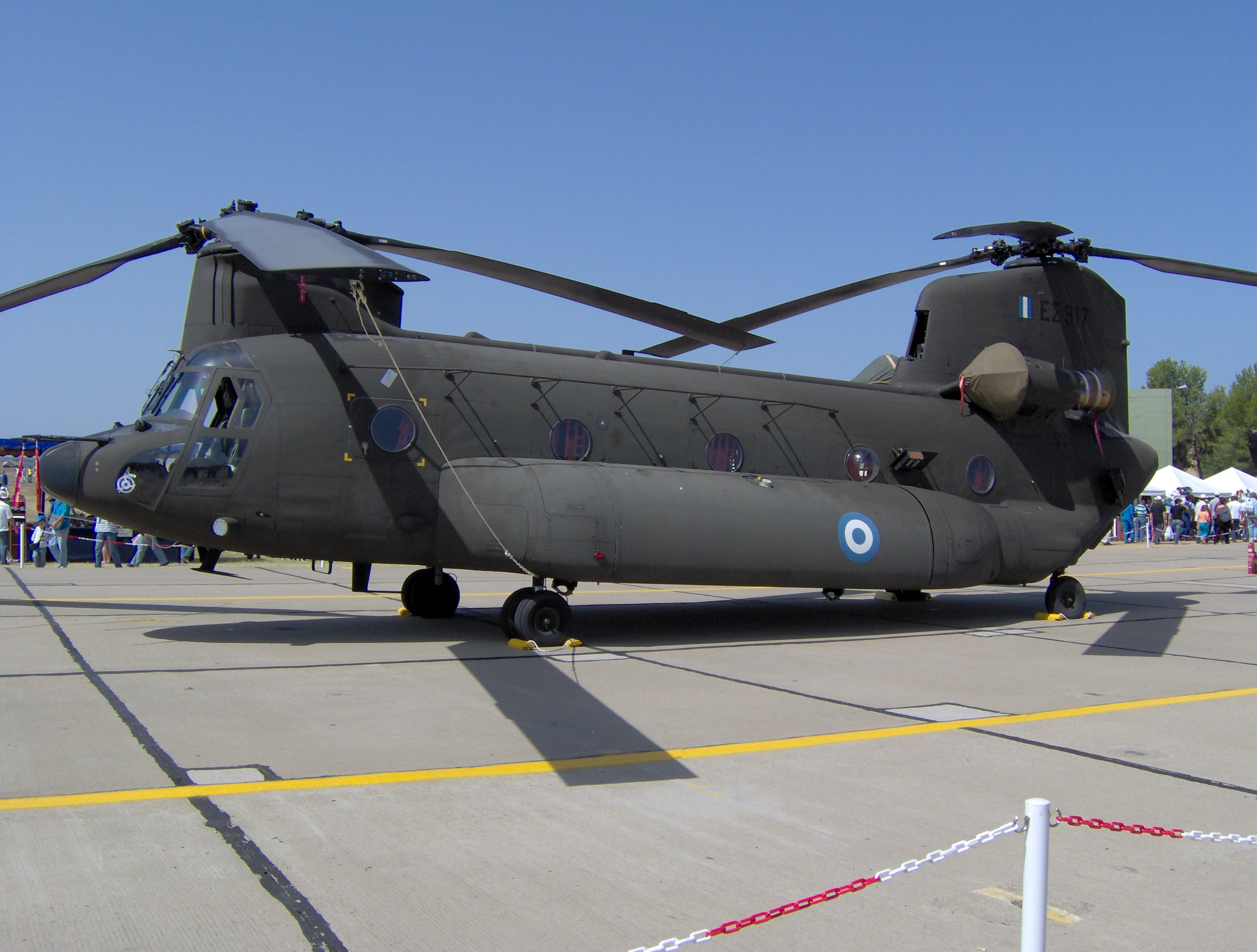 Tandem rotor helicopter Boeing CH-47 Chinook of Greece air forces